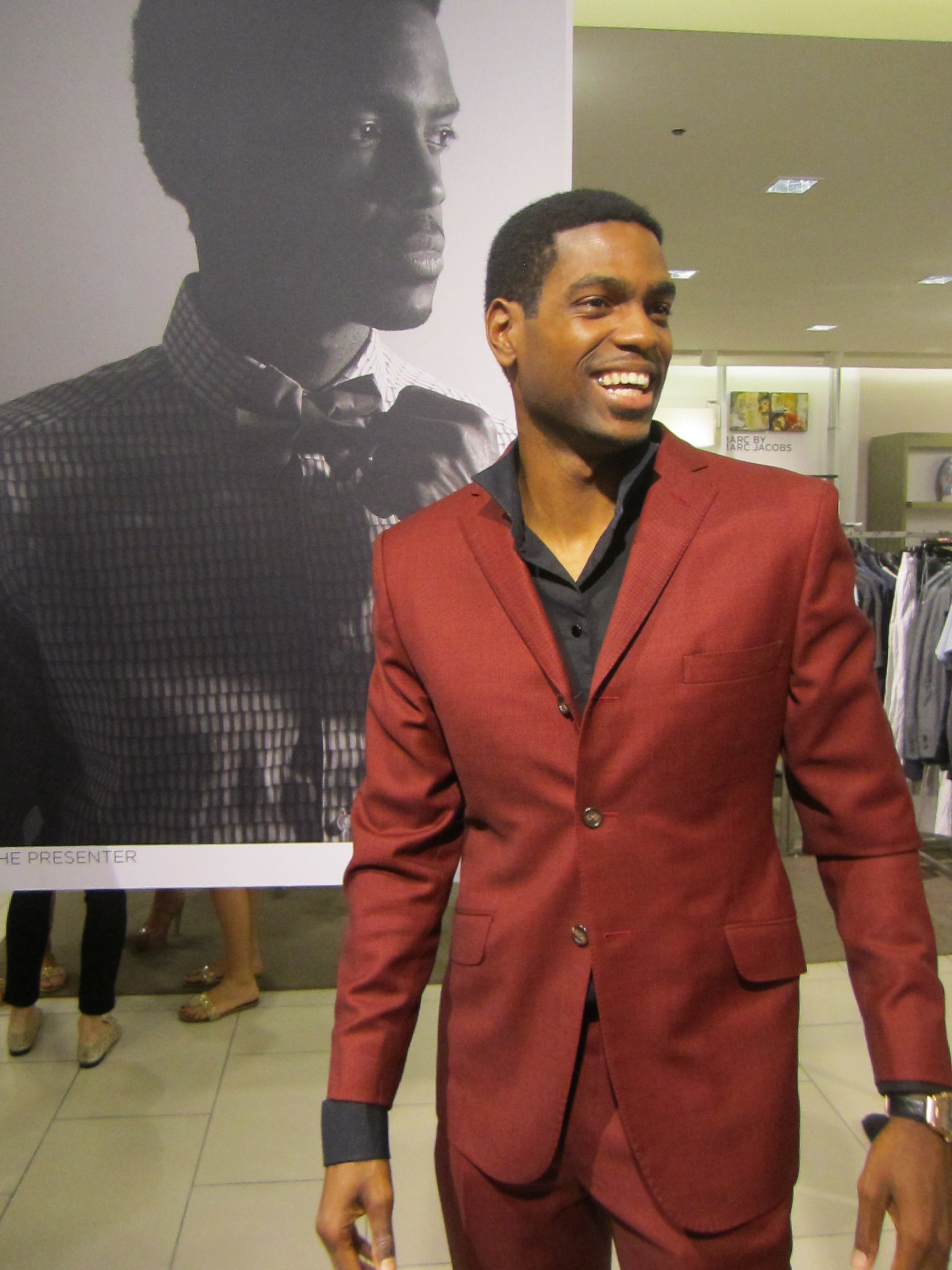 Layne Redman at the Emporer 1688 Exhibition at Sak's Fifth Avenue, Dubai